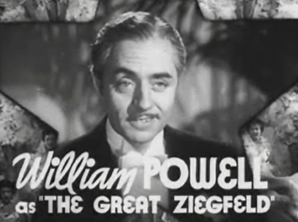 Cropped screenshot of William Powell as Florenz Ziegfeld from the trailer for The Great Ziegfeld